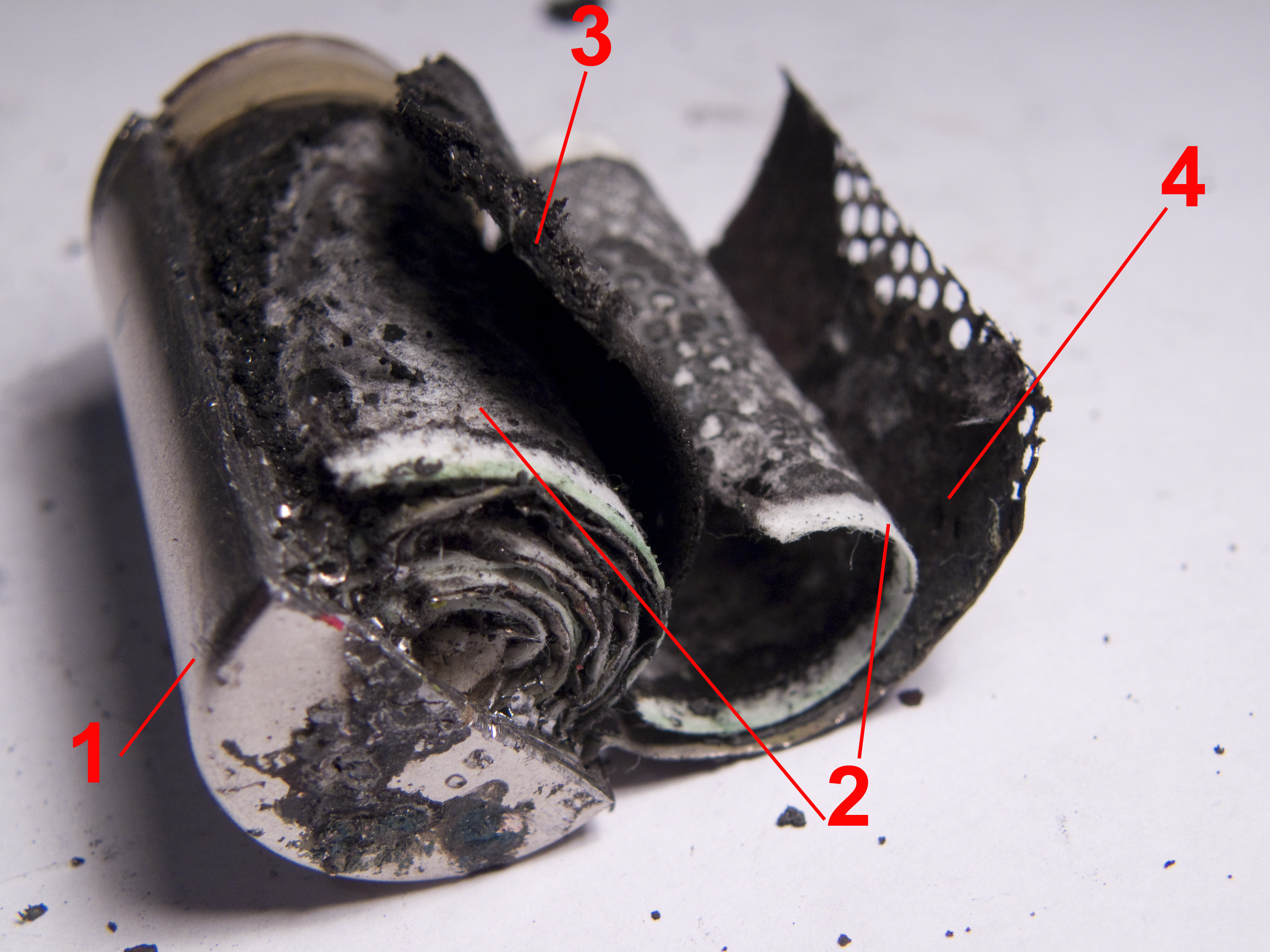 Disassembled Ni-Cd AA cell. 1:outer metal casing (also negative terminal) 2: separator (between electrodes) 3: positive electrode 4: negative electrode with current collector (metal grid, connected to metal casing). Everything is rolled. Construction is very similar to ni-mh cell.